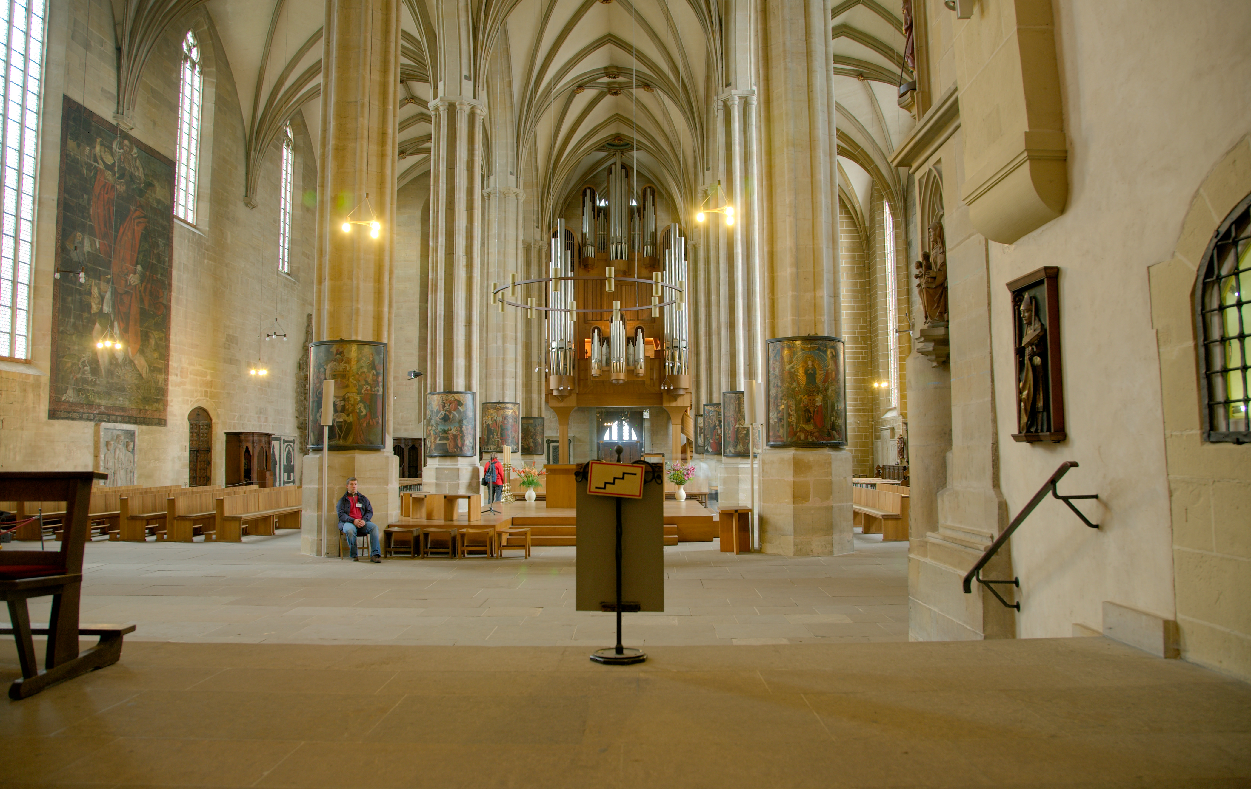 Erfurt cathedral